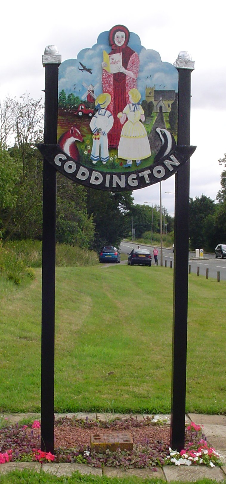 Signpost in Coddington